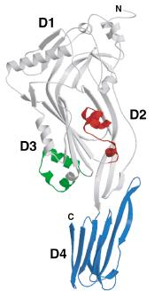 Ribbon representation of water soluble monomeric form of perfingolysin O (PFO) with labeled domains. Six short α-helices in D3 unfold to form two transmembrane β-hairpin (TMH), TMH1 (red) and TMH2 (green).